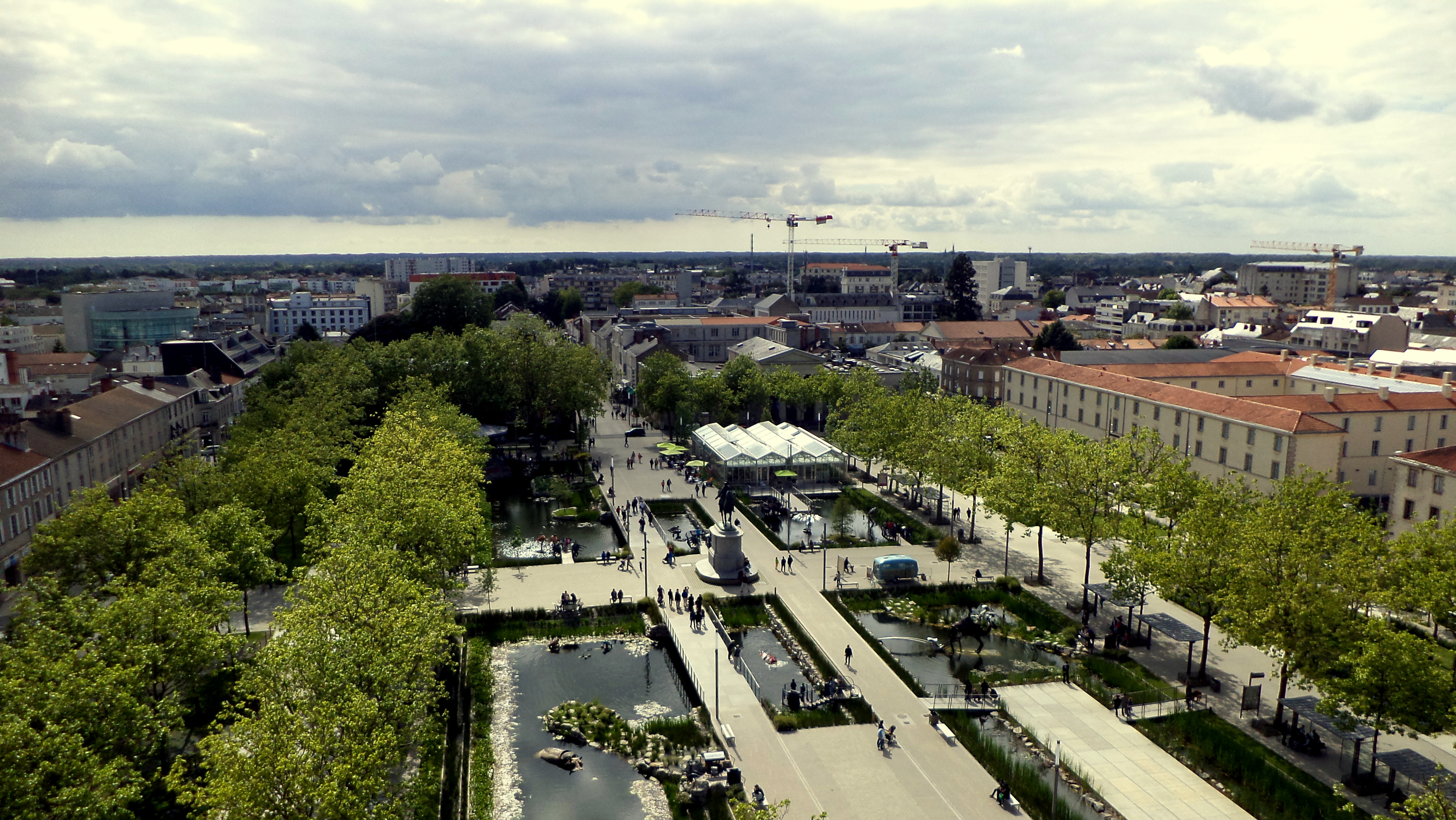 View of Napoleon square. La Roche-sur-Yon / Vendée / France.